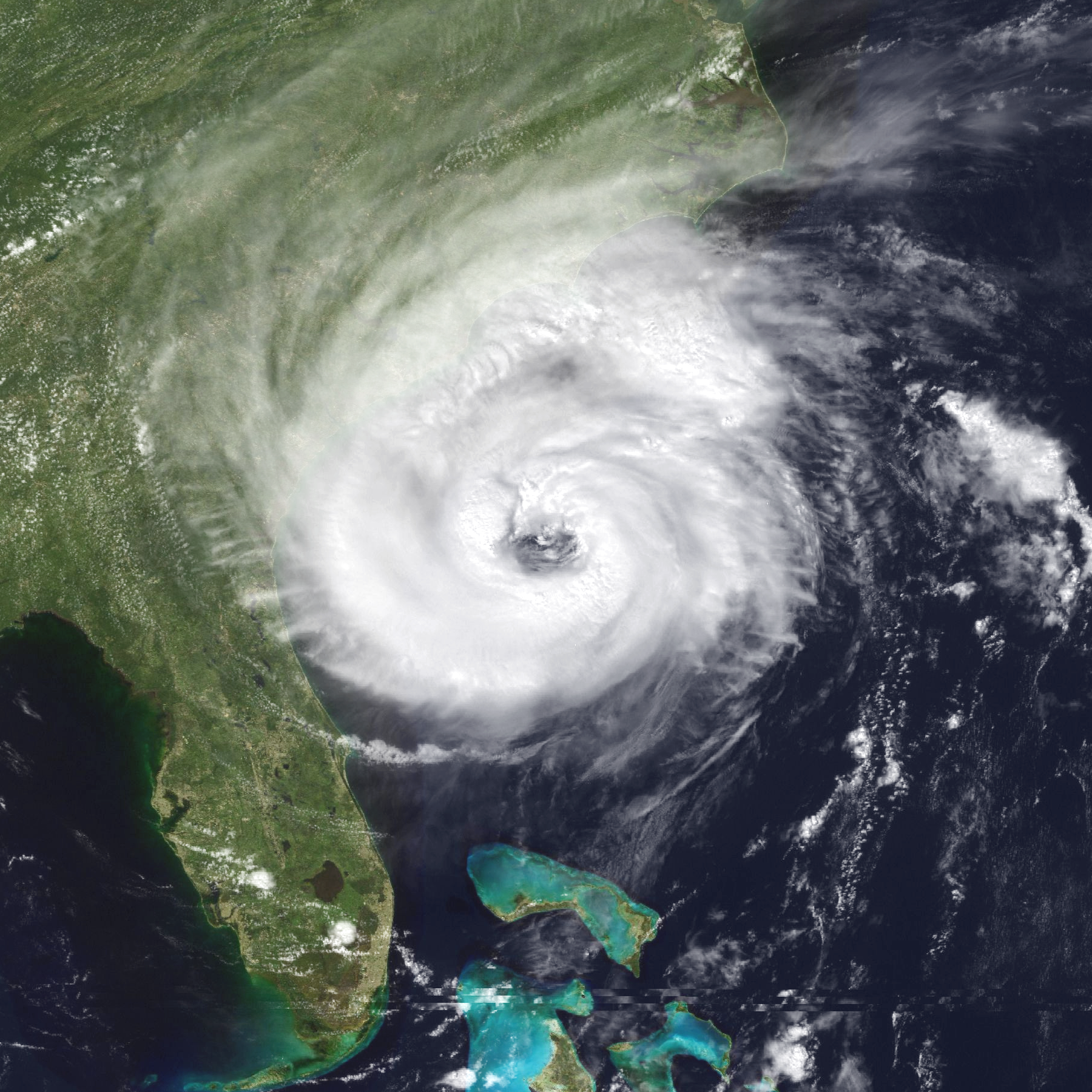 Hurricane Dennis near peak intensity off the coast of Georgia on August 29, 1999